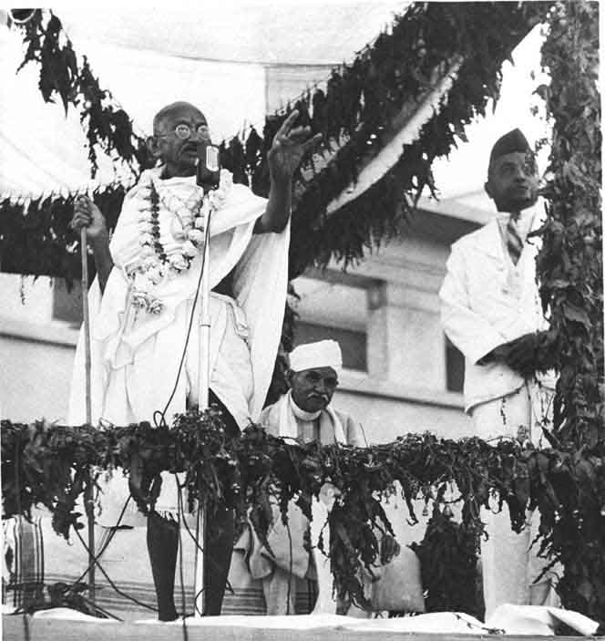 Mahatma Gandhi performing the opening ceremony of Kamala Nehru Hospital in Allahabad in 1941. Pandit Madan Mohan Malavaya is Seated next to him and Dr. Jivaraj Mehta is seen standing on the extreme right.